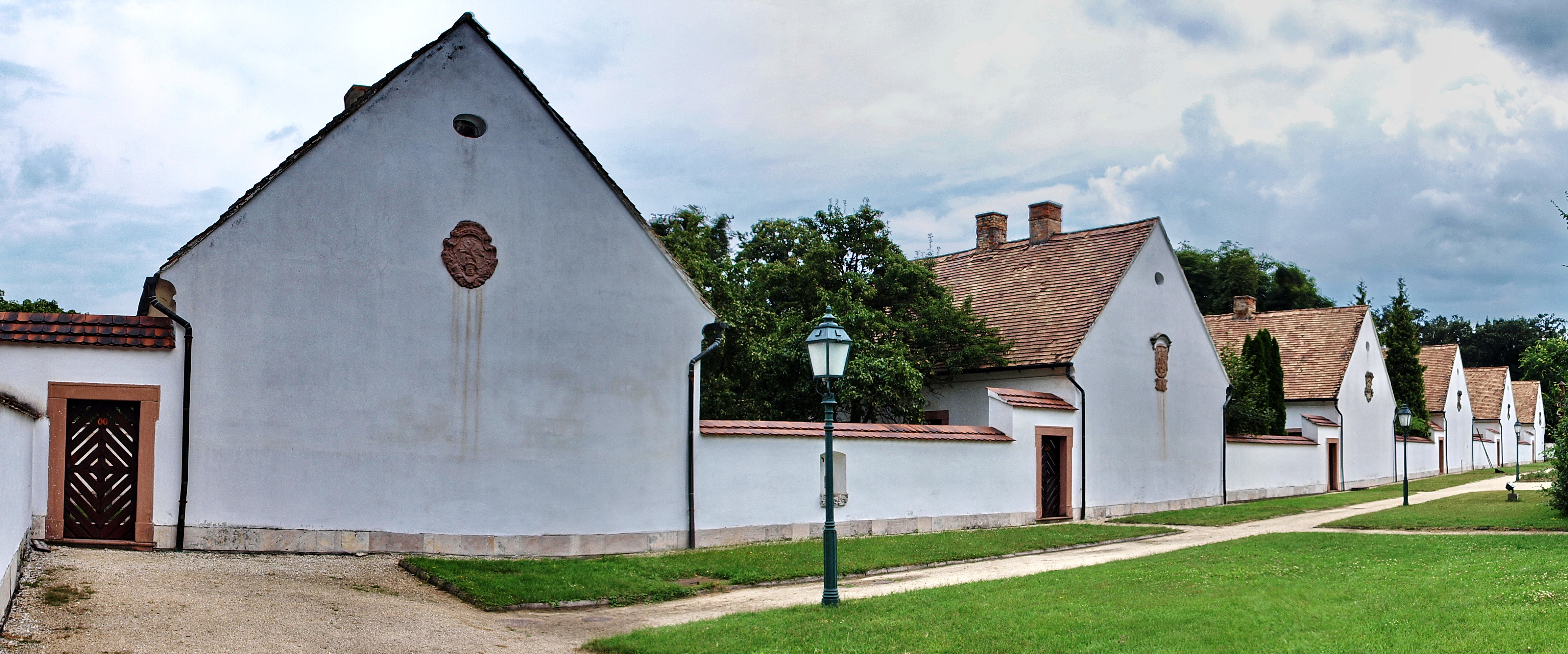 Hermites'Houses (Monks'Cells) in the former Camaldolese monastery (18. century) in Majkpuszta (Oroszlány, Komárom-Esztergom County, Hungary).